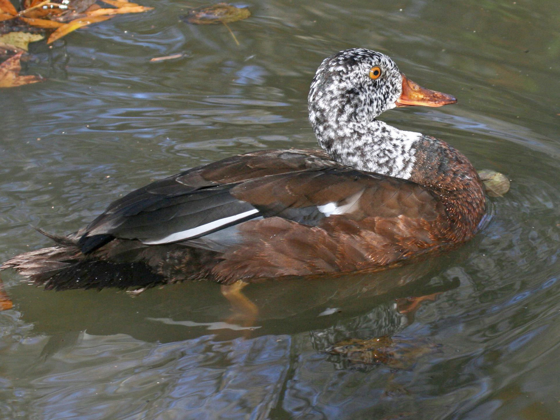 White-winged Wood Duck (Cairina scutulata) at Sylvan Heights Waterfowl Park in Scotland Neck, North Carolina.